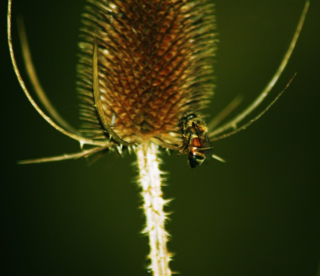 A North American Honey Bee, Presumably impaled on thorn by a species of Shrike.